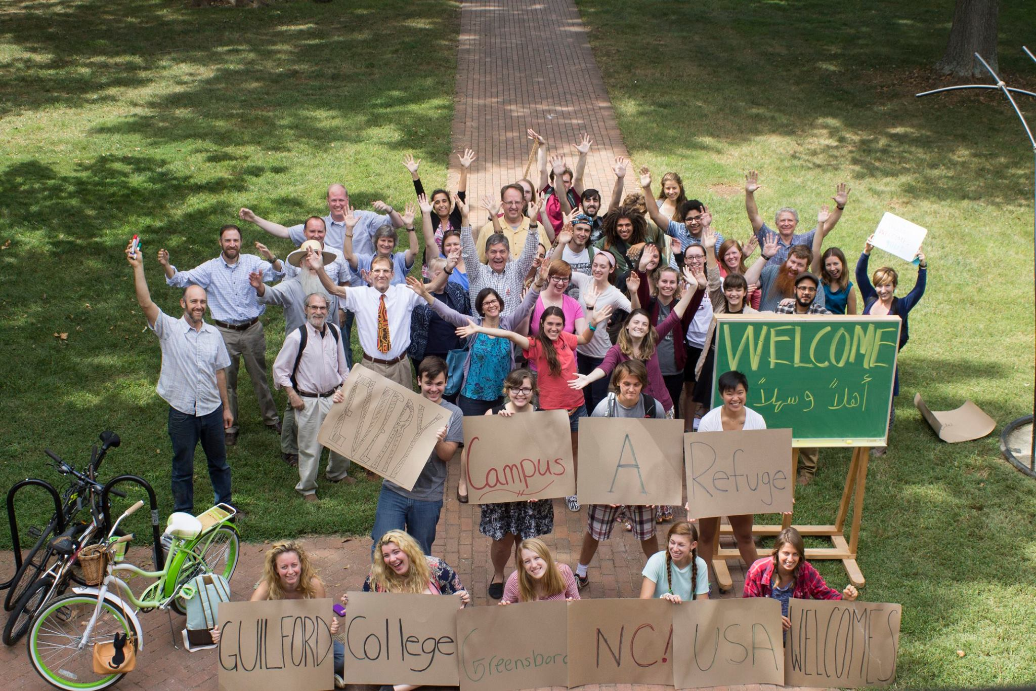 A group of professors and volunteers gather at Guilford College to make signs supporting ECAR.